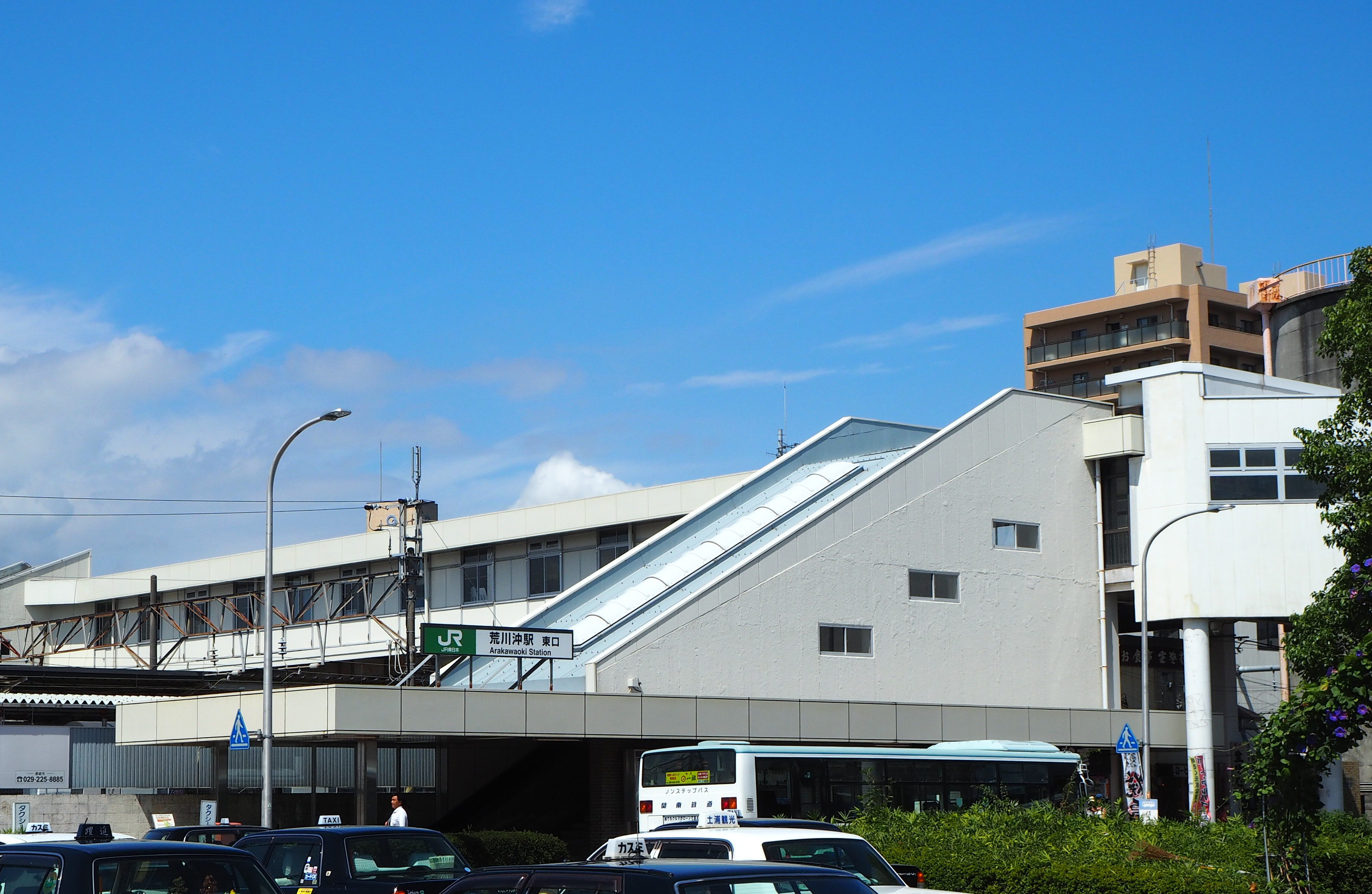 East entrance of Arakawaoki Station